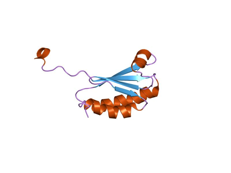 Cartoon representation of the molecular structure of protein registered with 1t4y code.